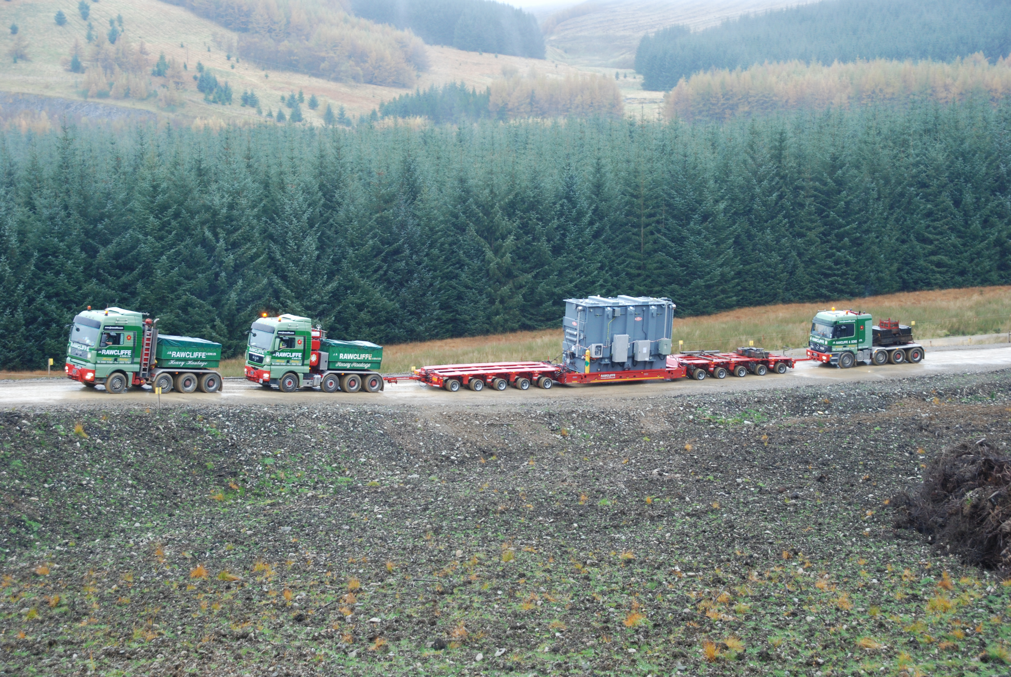 JB Rawcliffe & Sons Ltd ballasted units transported a 100,000 kg transformer to a windfarm substation on a Nicolas 5 Greiner Bed 5 modular trailer